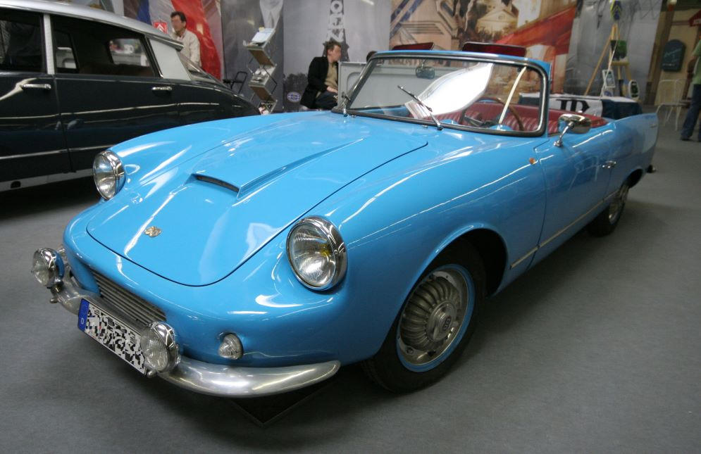 Panhard DB Le Mans - 2 cyl - 850 ccm - 60 PS - 1960